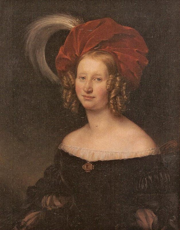 Amalasuntha Gräfin Rantzau, geb. Gräfin Bothmer (1810-1856)